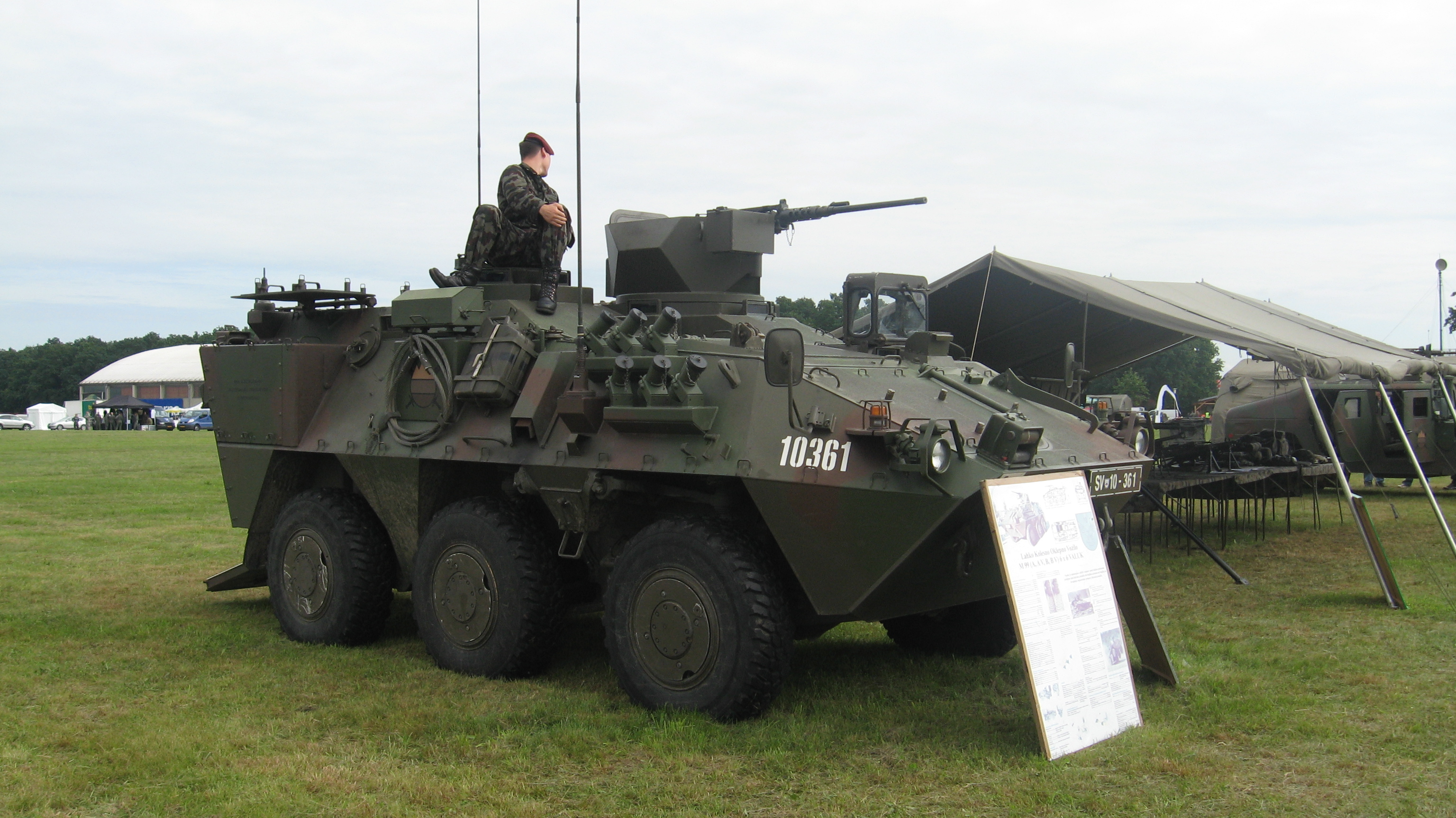 Light wheeled armoured vehicle Valuk